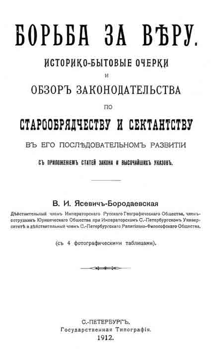 Yasevich-Borodaevskaya V.I., page from book.